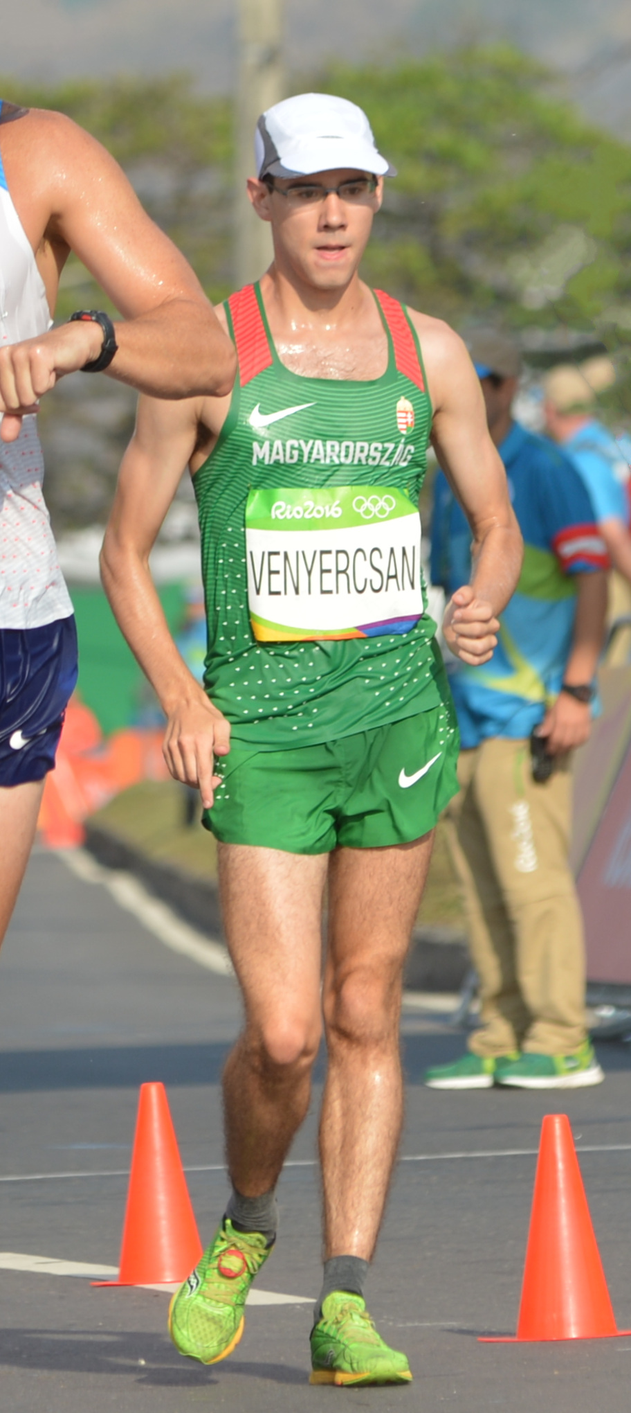 Bence Venyercsan race walks 50 kilometers at Rio Olympic Games